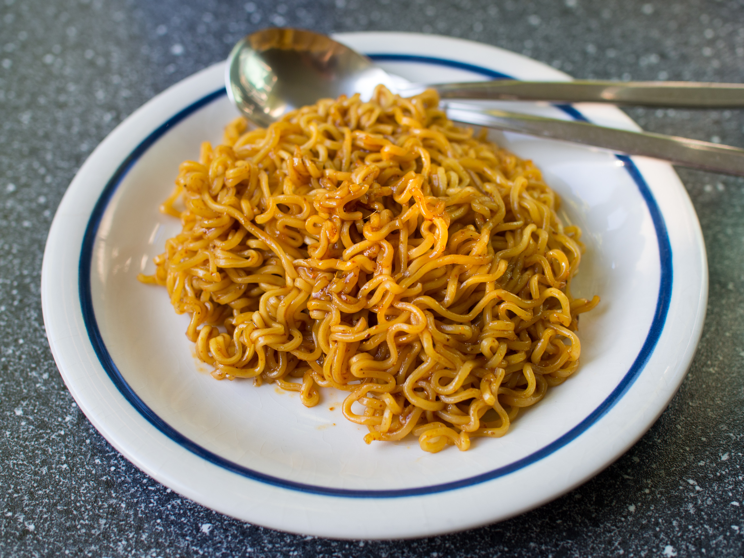 Indomie's Mi Goreng Rendang: finished product (with nothing added to the original contents).